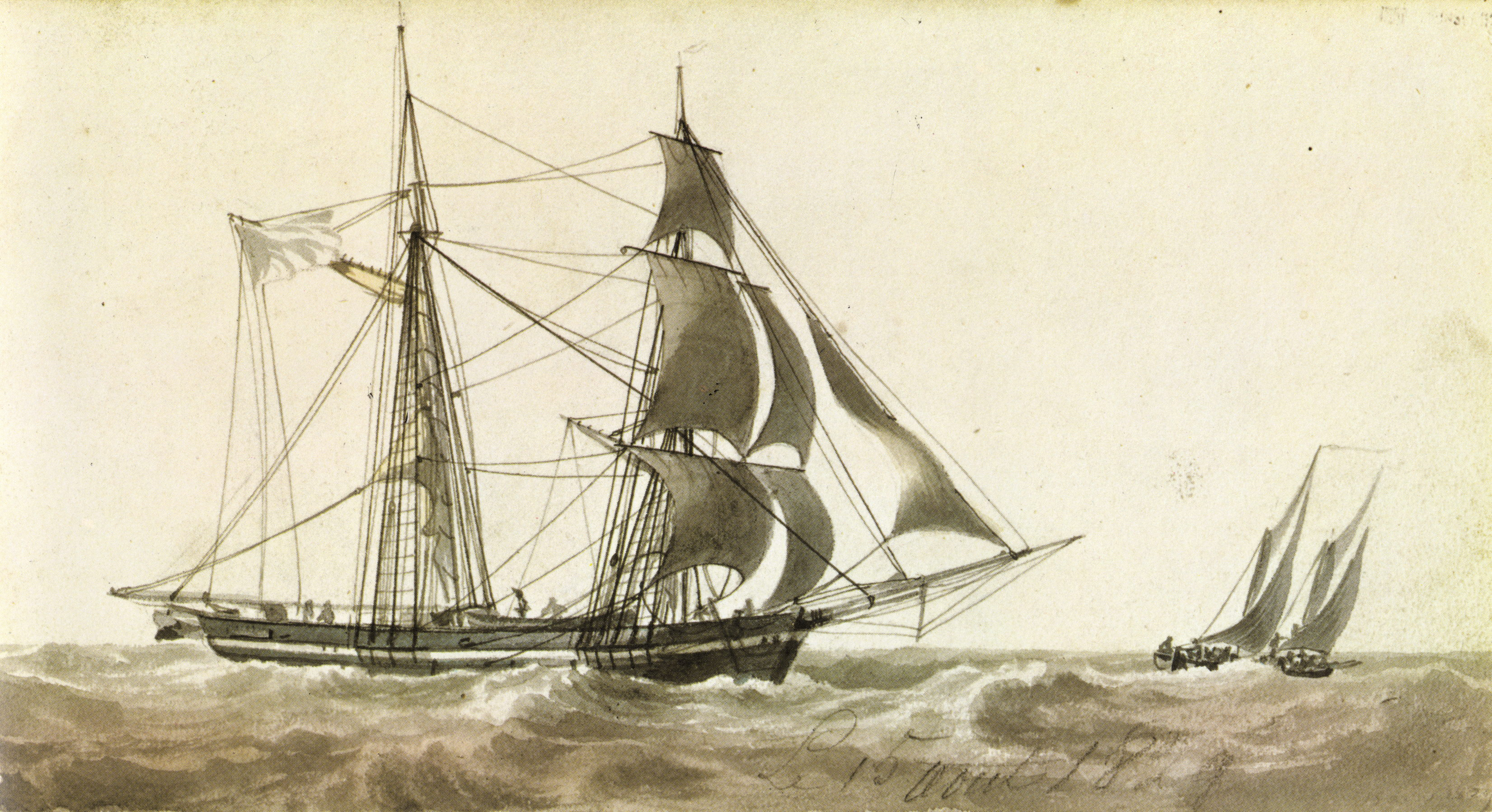 Brig-schooner of 1829